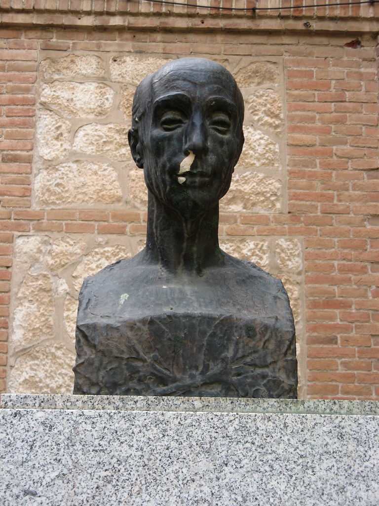 Busto de José Antonio Ochaíta, de Antonio Navarro Santafé, en Guadalajara (España).